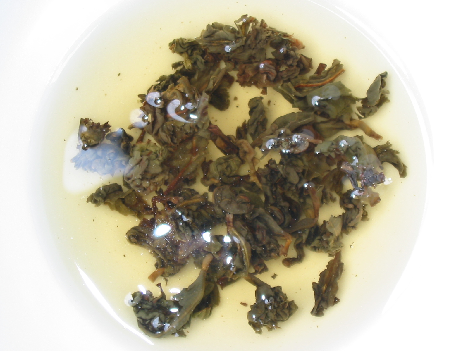 Tin Kuan Yin infusion in a bowl, showing decompressed leaves